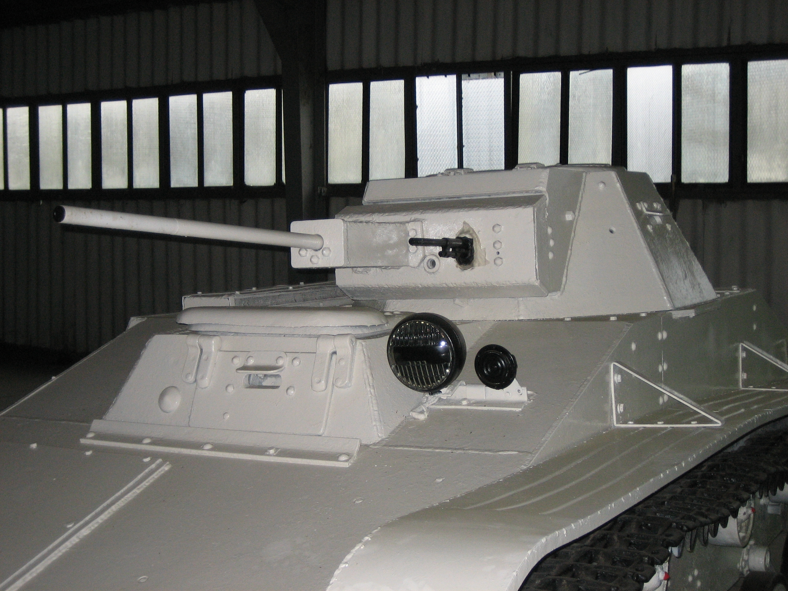 Soviet light infantry tank T-60, displayed in Kubinka Tank Museum. Photo taken on September 9, 2007. Source: Photo by me, User:Saiga20K.